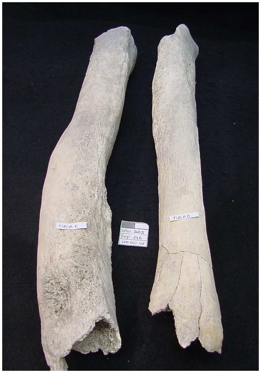 Tibiae with treponematosis. Note the anterior thickening on the tibia depicted on the left side. These bones were excavated at the Brazilian shell mound Jabuticabeira II, which dates to approximately 3,000 yBP.